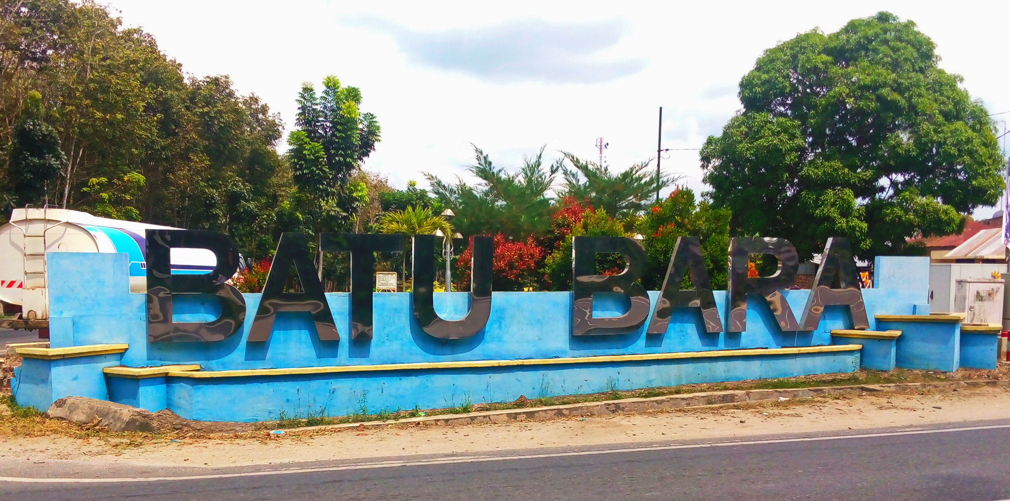 Welcome Gate to Batu Bara Regency